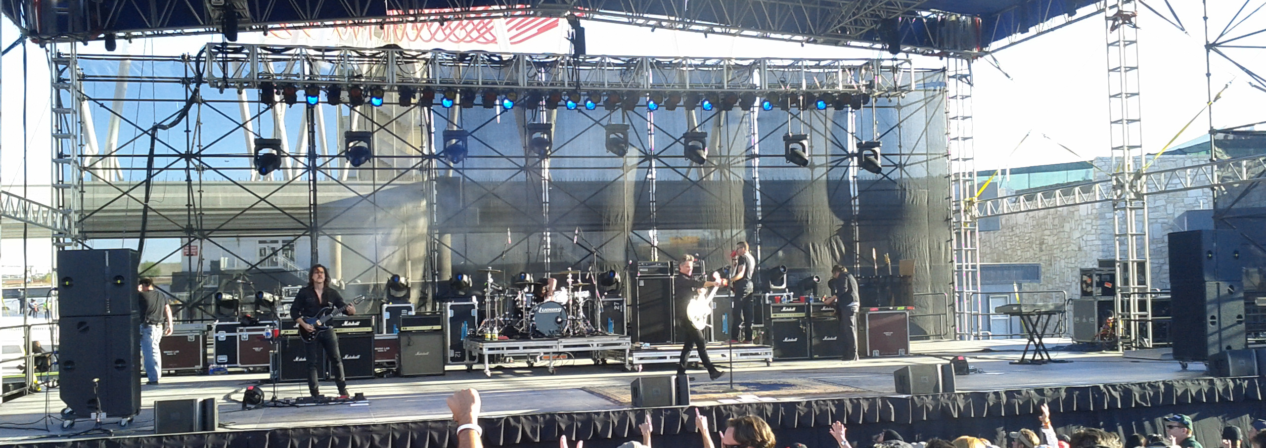 Photo of a live performance by the band Collective Soul at the Circuit of the Americas Tower Amphitheater in Austin, TX USA on November 17, 2012 during the Formula One United States Grand Prix weekend